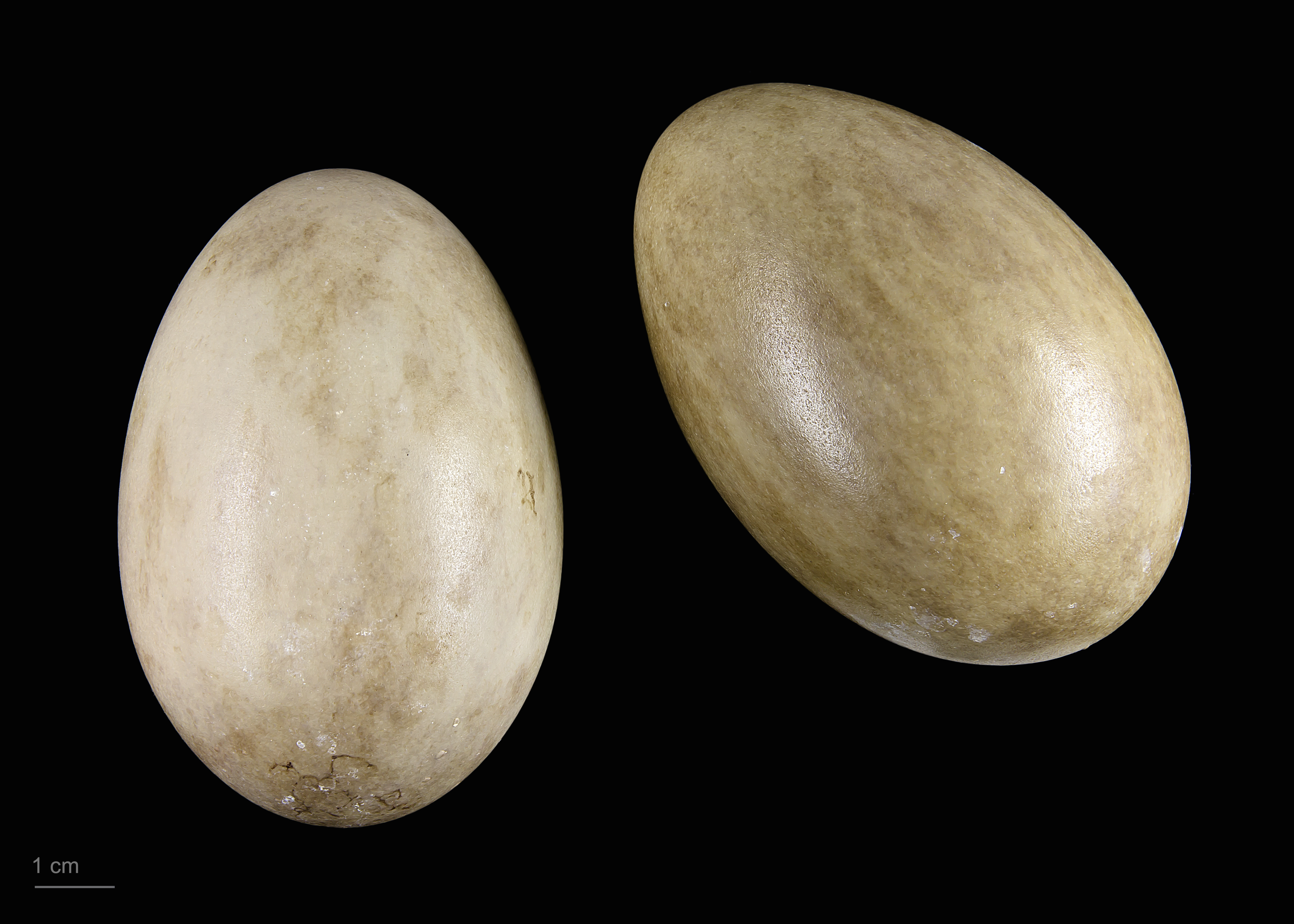 Eggs of great bustard Two specimens of the same spawn ; collection of Jacques Perrin de Brichambaut.